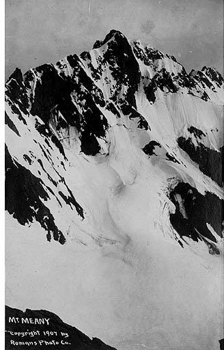 Caption on image: Mt. Meany. Copyright 1907 by Romans Photo Co. Subjects (LCSH): Meany, Mount (Wash.); Olympic National Park (Wash.); Olympic Mountains (Wash.); Mountains--Washington (State)--Jefferson County